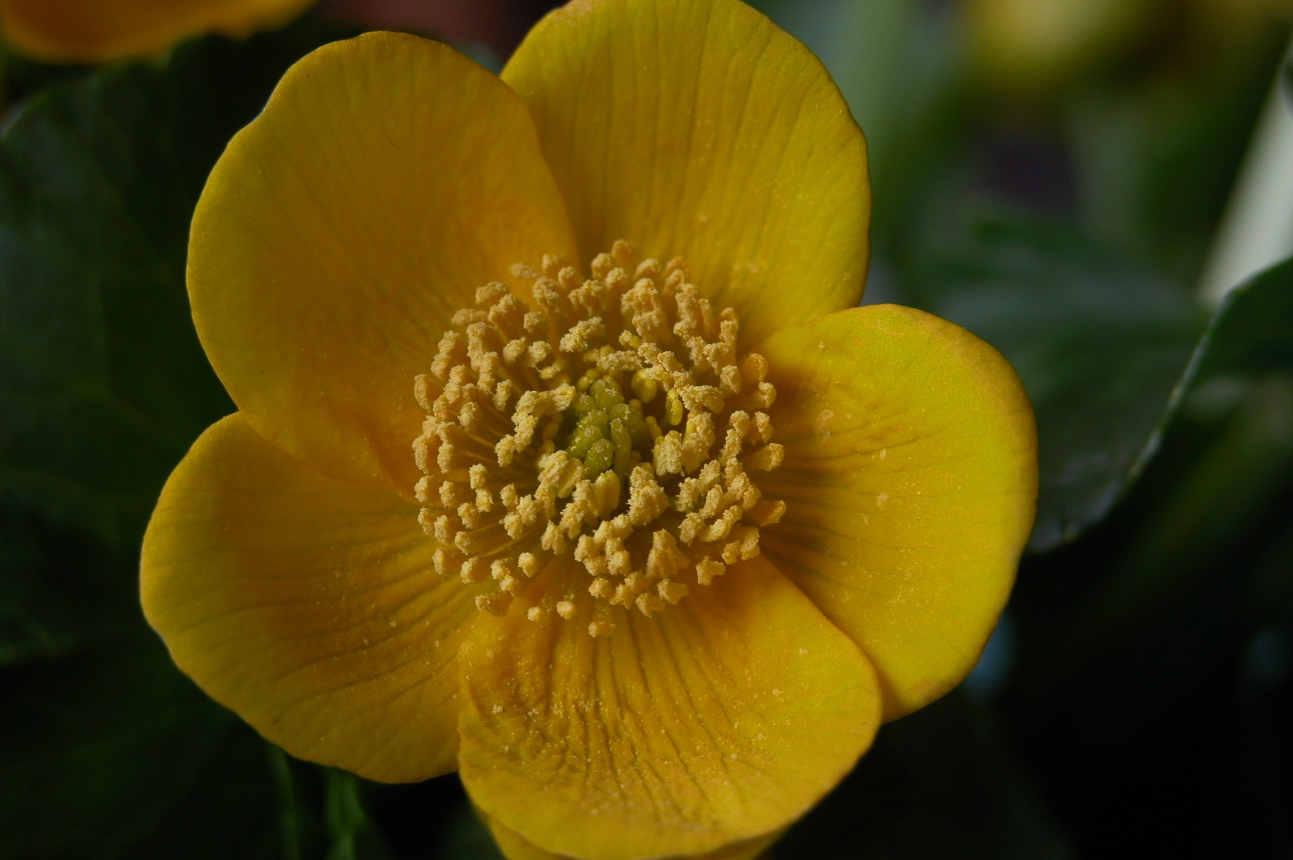 The national flower of Faroe Islands - Caltha palustris commonly known as Kingcup or Marsh Marigold.